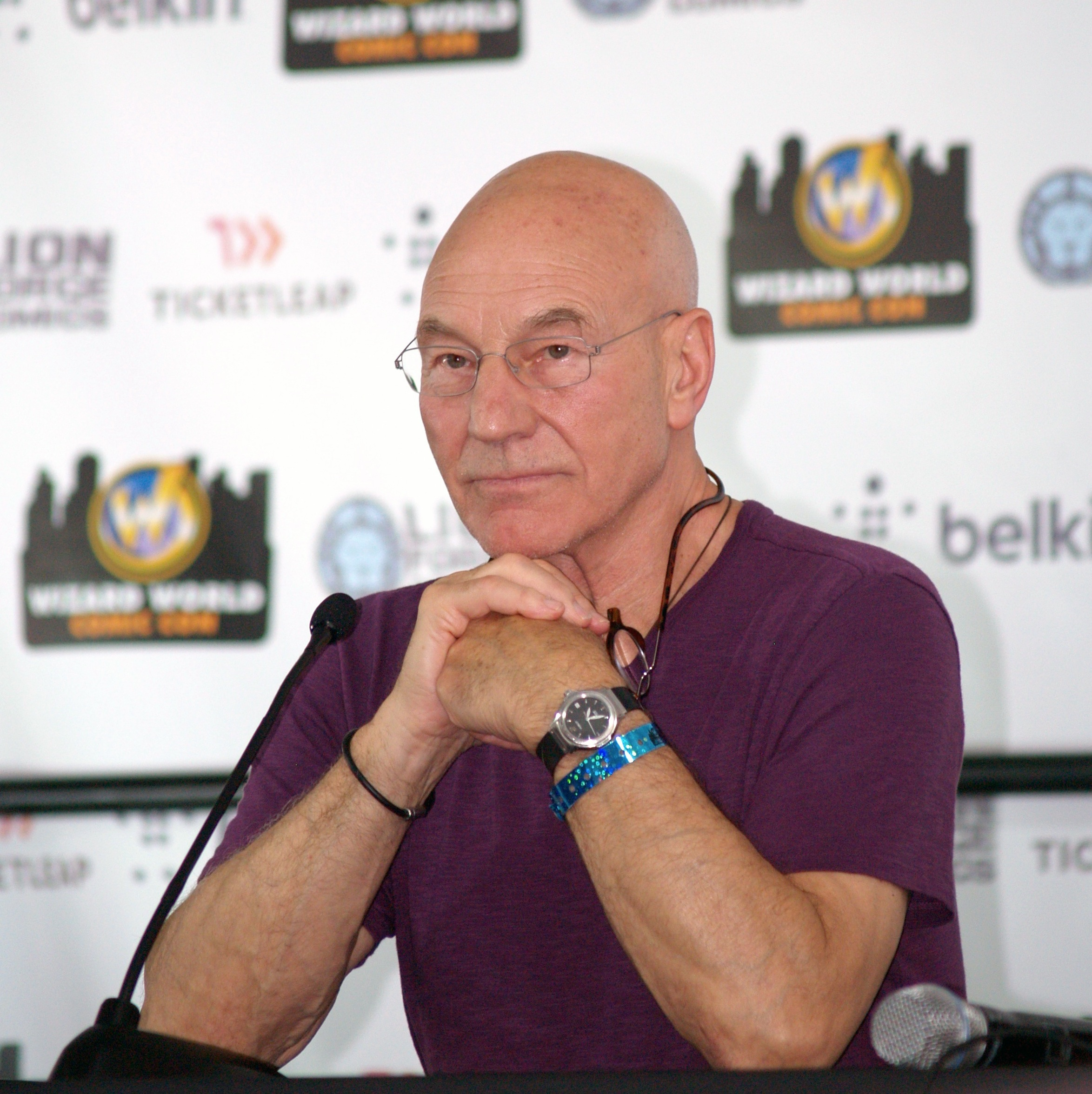 Actor Patrick Stewart during a June 29, 2013 Q&A panel at the 2013 Wizard World New York Experience. This photo was created by Luigi Novi. It is not in the public domain, and use of this file outside of the licensing terms is a copyright violation.